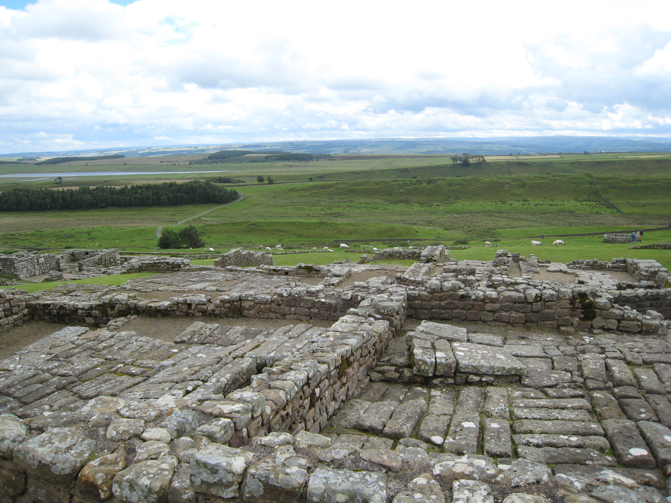 Praetoritum (Commandant's House) at Housesteads Roman Fort (Vercovicium). Date: 2007